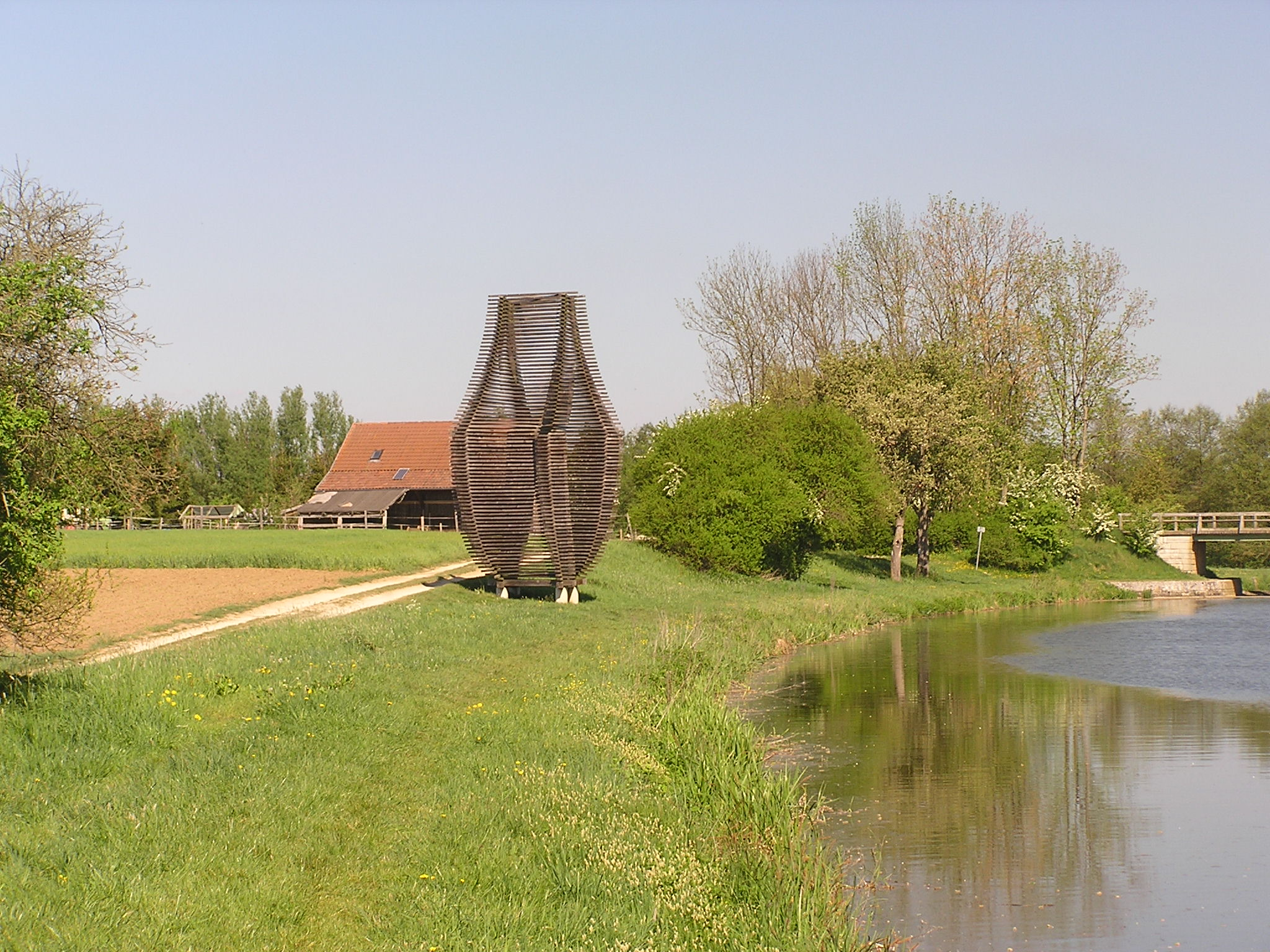 „Kunst am Kanal“ (Ludwig-Donau-Main-Kanal), work „Stapelung 3“.